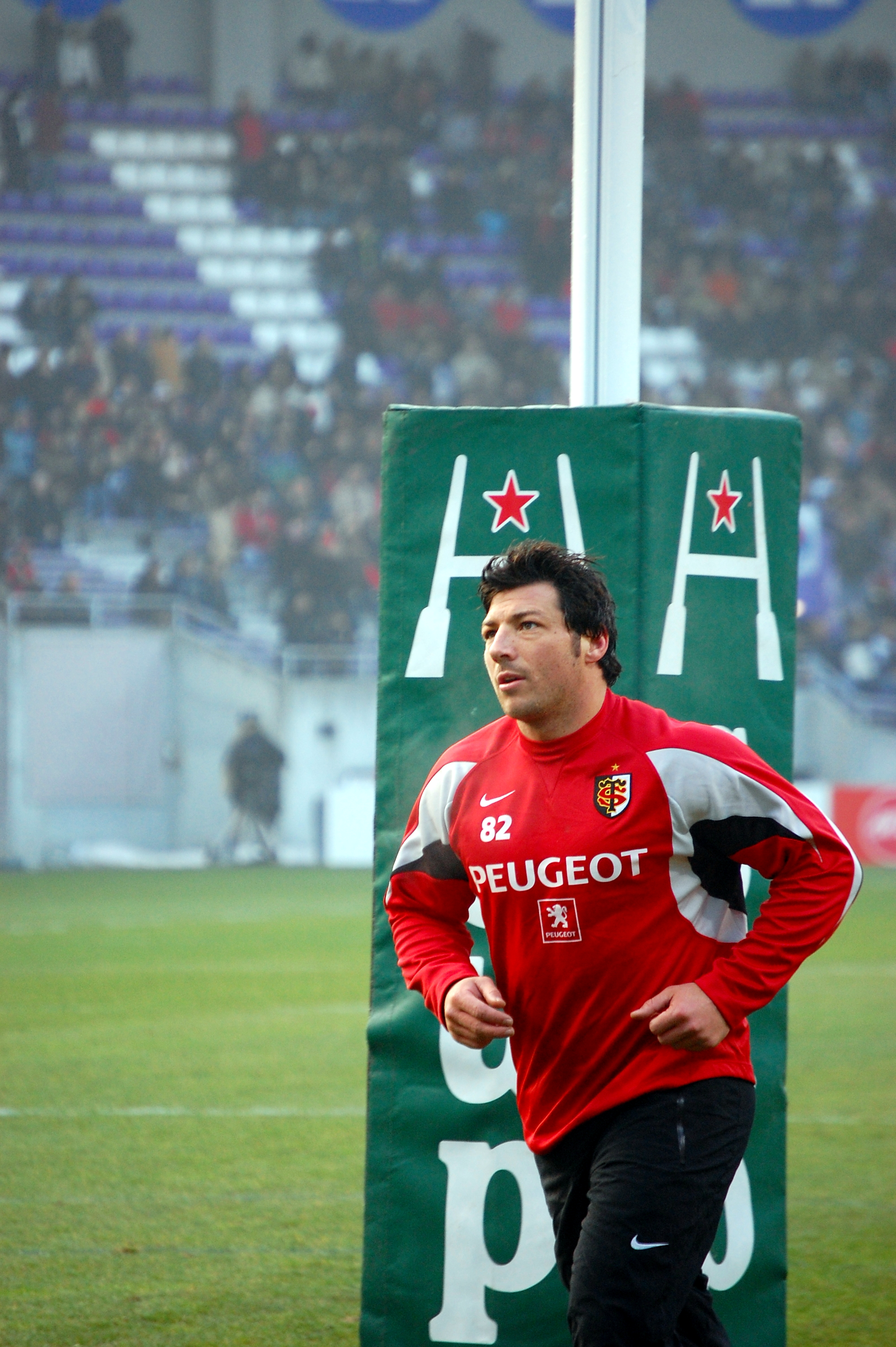 Stade Toulousain and All Blacks' scrumhalf Byron Kelleher before the Heineken Cup game Toulouse-Leicester.